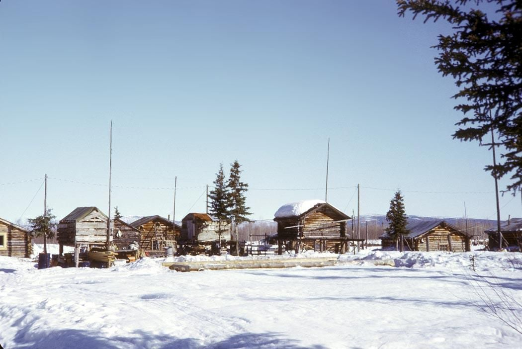 Image title: Allakaket village Image from Public domain images website